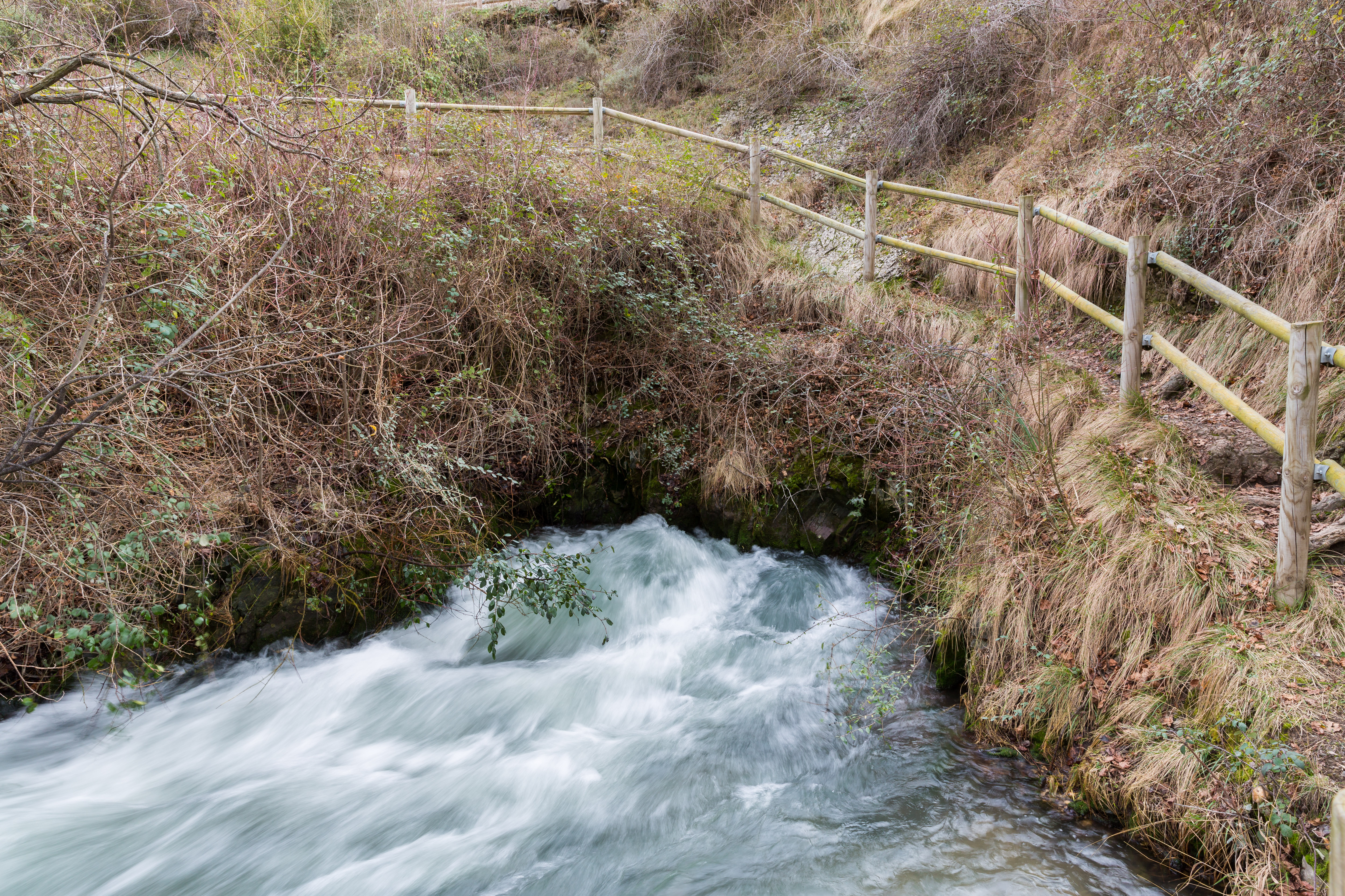 Birth of the Queiles river, Vozmediano, Soria, Spain